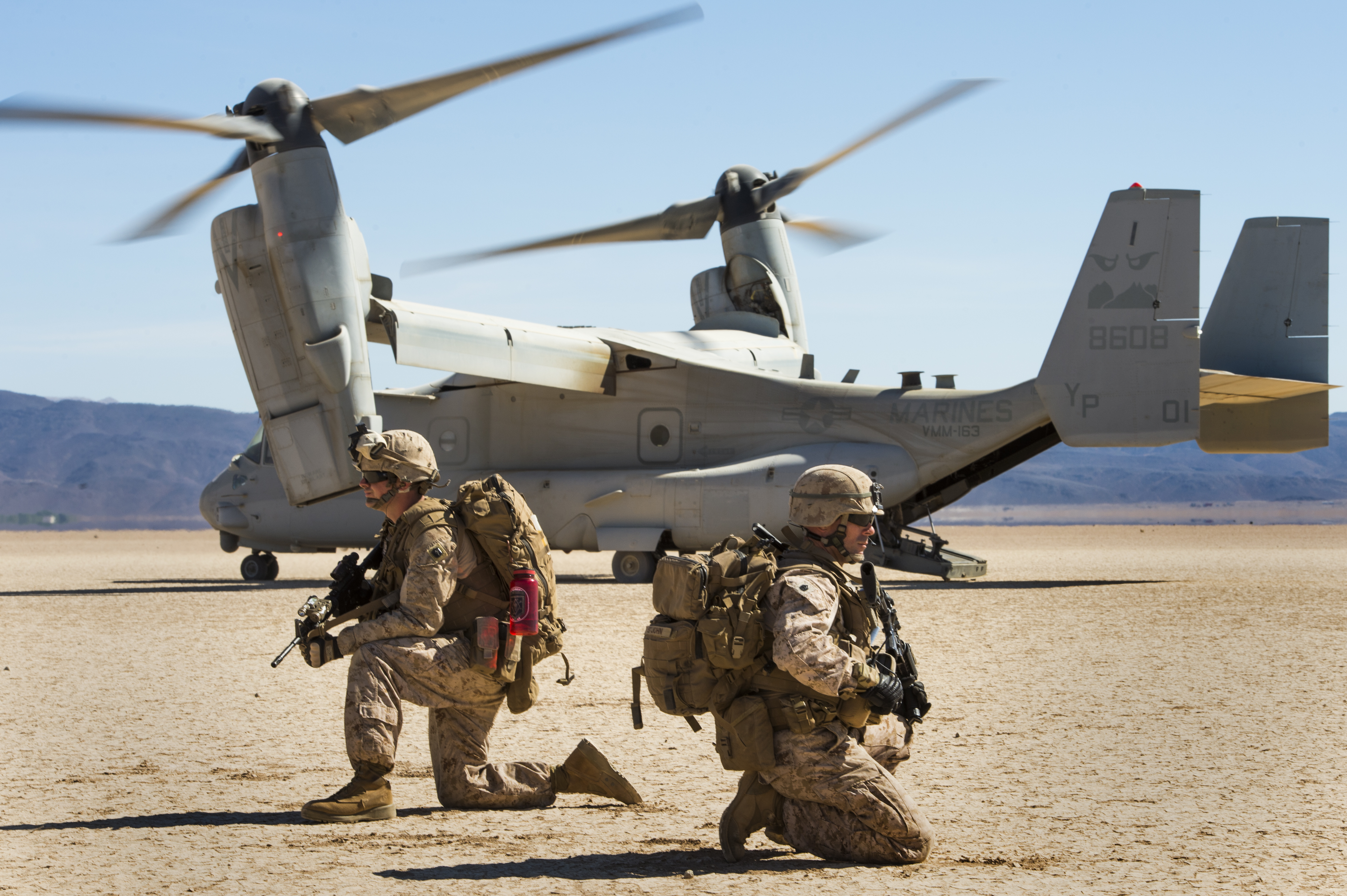 Service members from the U.S. Air Force, Army and Marine Corps participate in a sustainment training at Grand Bara, Djibouti, Jan. 5, 2017. During the exercise U.S. Air Force Joint Terminal Attack Controllers, Soldiers from the 101st Infantry Battalion and Marines from the 11th Marine Expeditionary Unit conducted a sustainment training utilizing MV-22 Ospreys and F-16 Fighting Falcons. (U.S. Air Force photo by Tech. Sgt. Joshua J. Garcia) Unit: 1st Combat Camera Squadron DVIDS Tags: F-16; Djibouti; Africa; JTAC; Grand Bara; Soldiers; Air Force; Marine Corps; Marines; Army; CJTF-HOA; MV-22